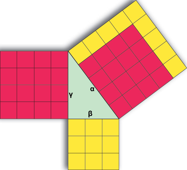 Pythagorean theorem